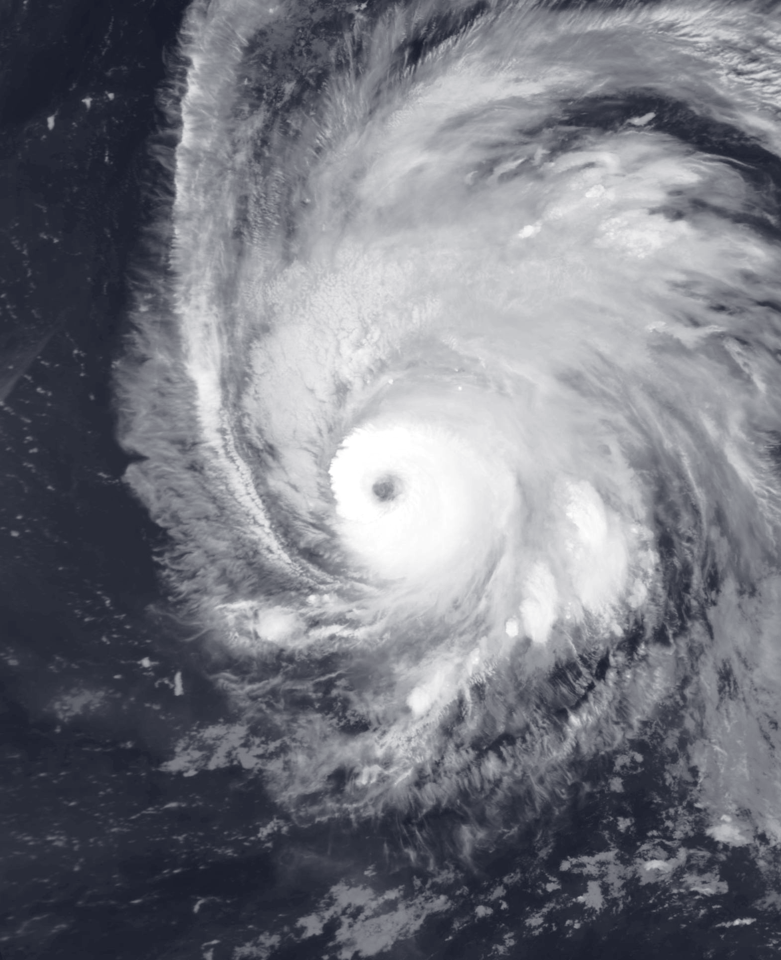 Hurricane Karl near peak intensity over the Atlantic Ocean on September 21, 2004